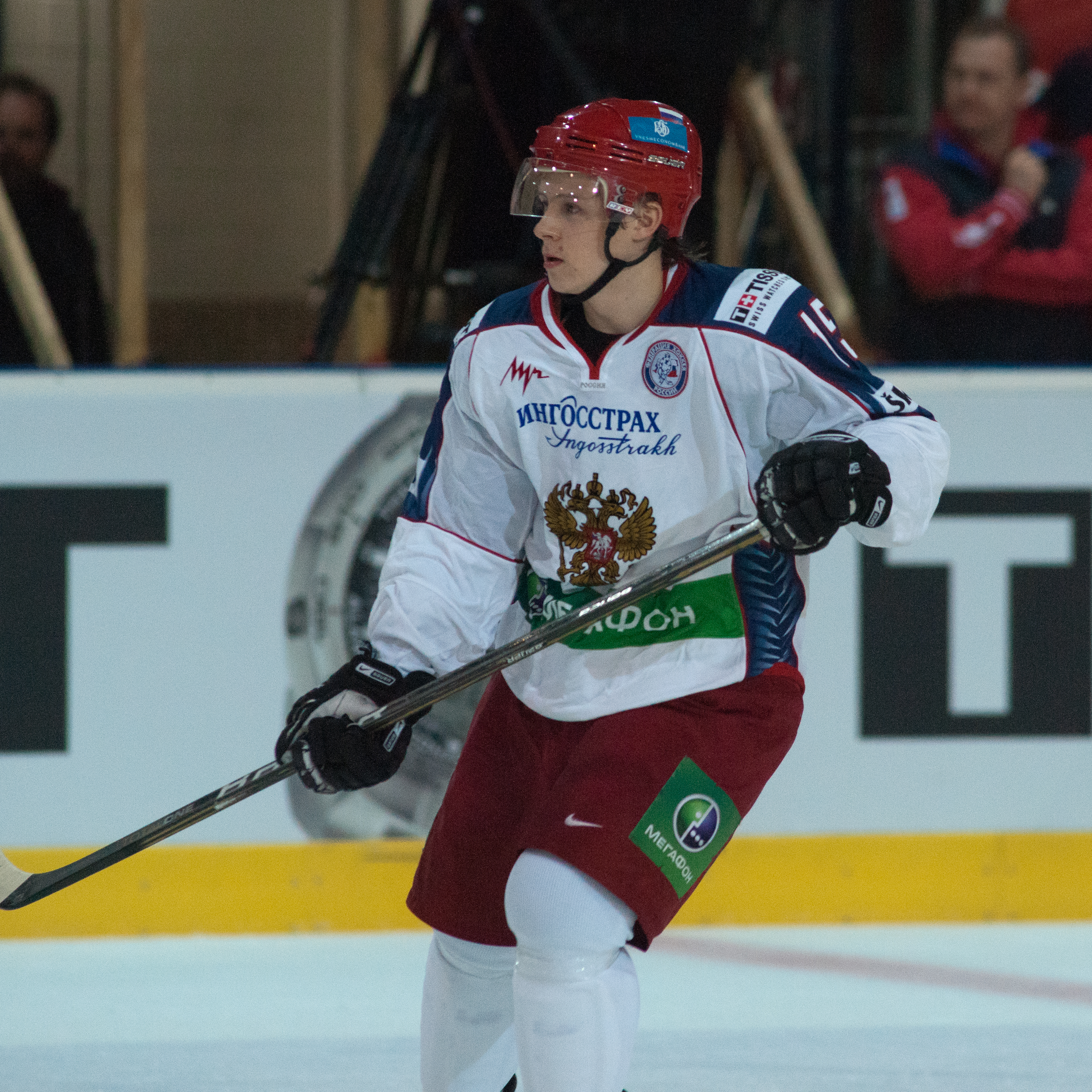 The making of this document was supported by Wikimedia CH. (Submit your project!) For all the files concerned, please see the category Supported by Wikimedia CH. Switzerland vs. Russia, 8th April 2011